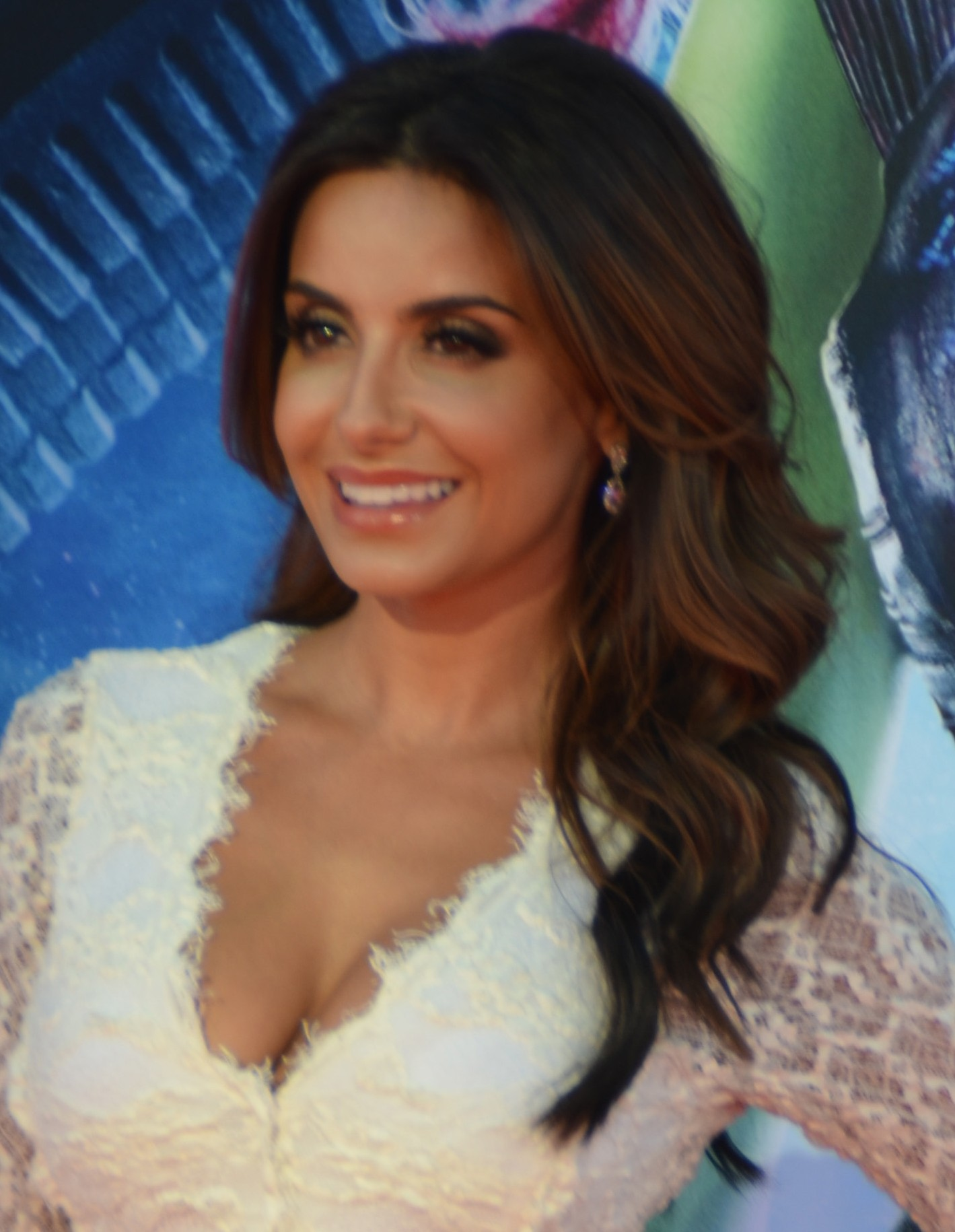 Mikaela Hoover at the Guardians of the Galaxy premiere in July 2014